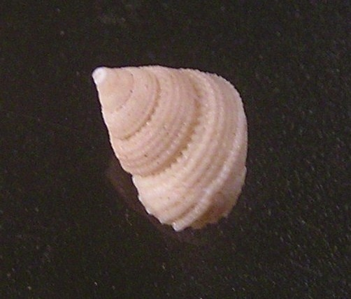 Perrinia concinna (A. Adams, 1864-f), a sea snail from the family Chilodontidae; Philippines